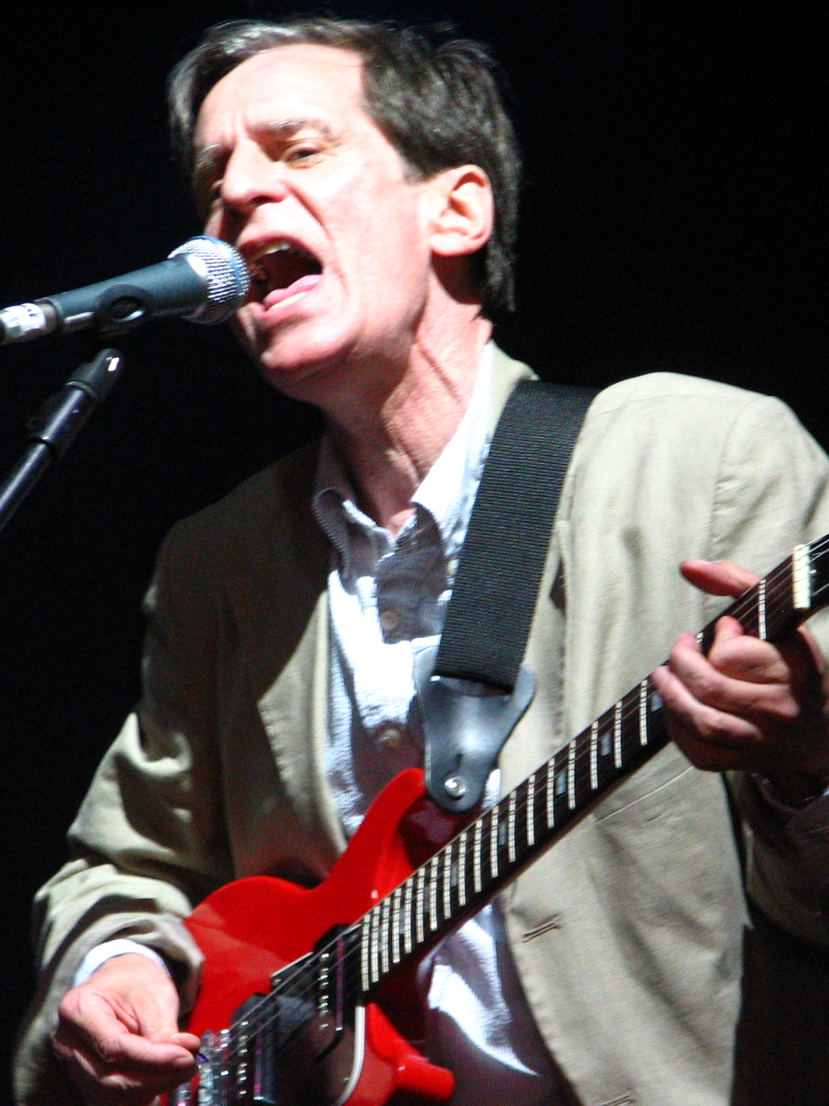 Alex Chilton, performing as part of Big Star in Hyde Park, London, UK